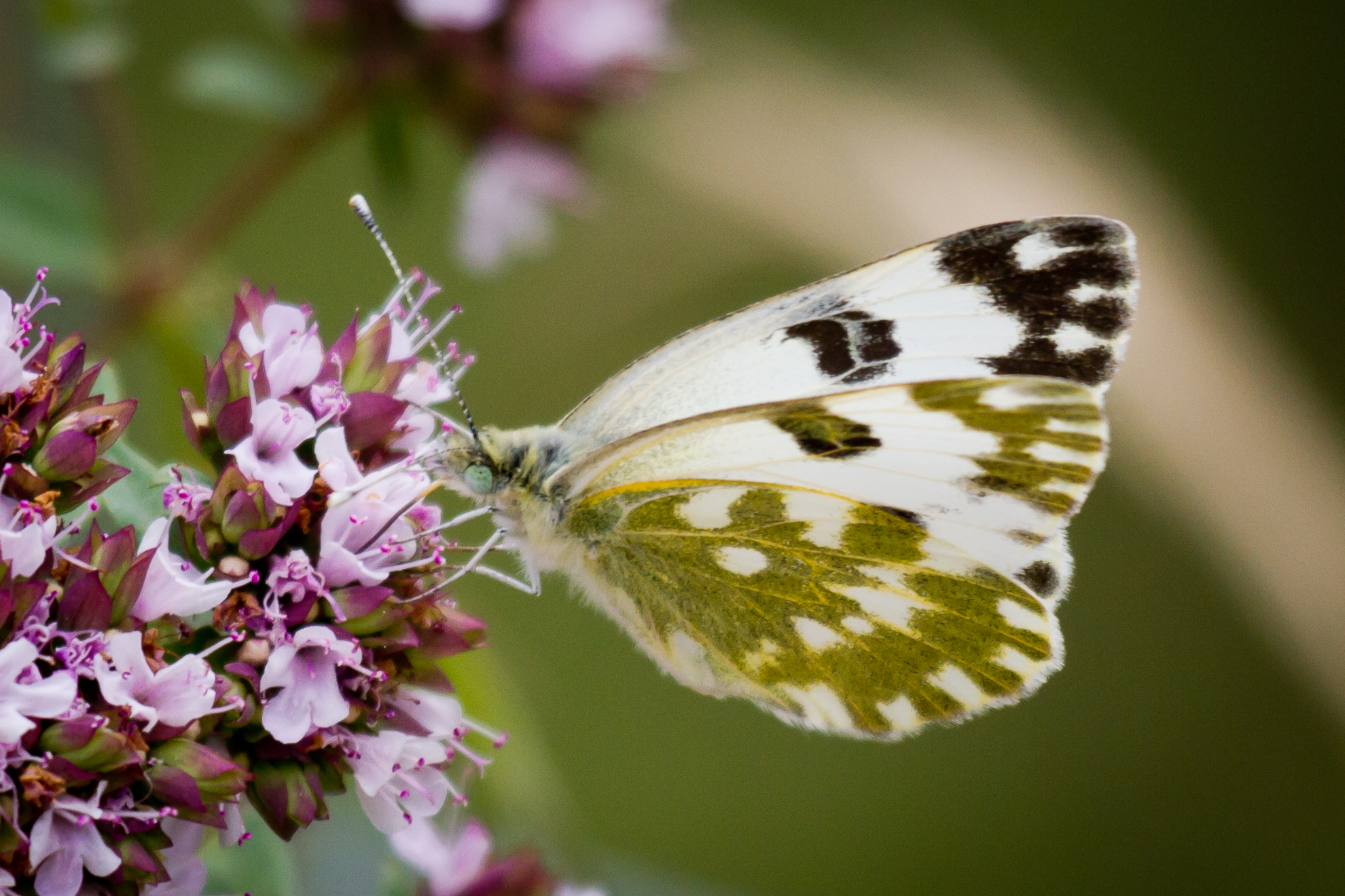 Pontia daplidice (Bath White) in Tuscany, Italy.